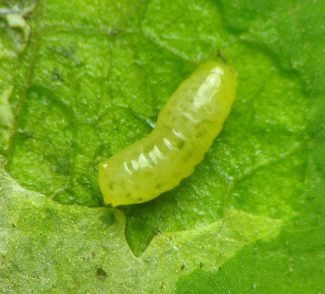 Milkweed Leaf-Miner Fly's larva on common milkweed, Liriomyza asclepiadis. Horsham trail, Montgomery County, Pennsylvania, USA.